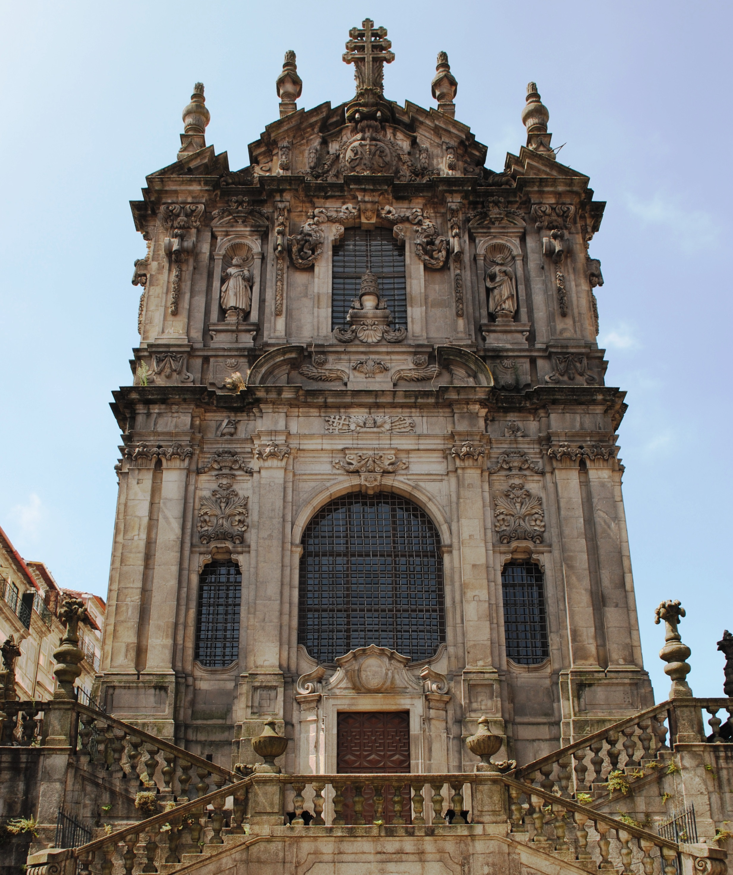 See title and categories.